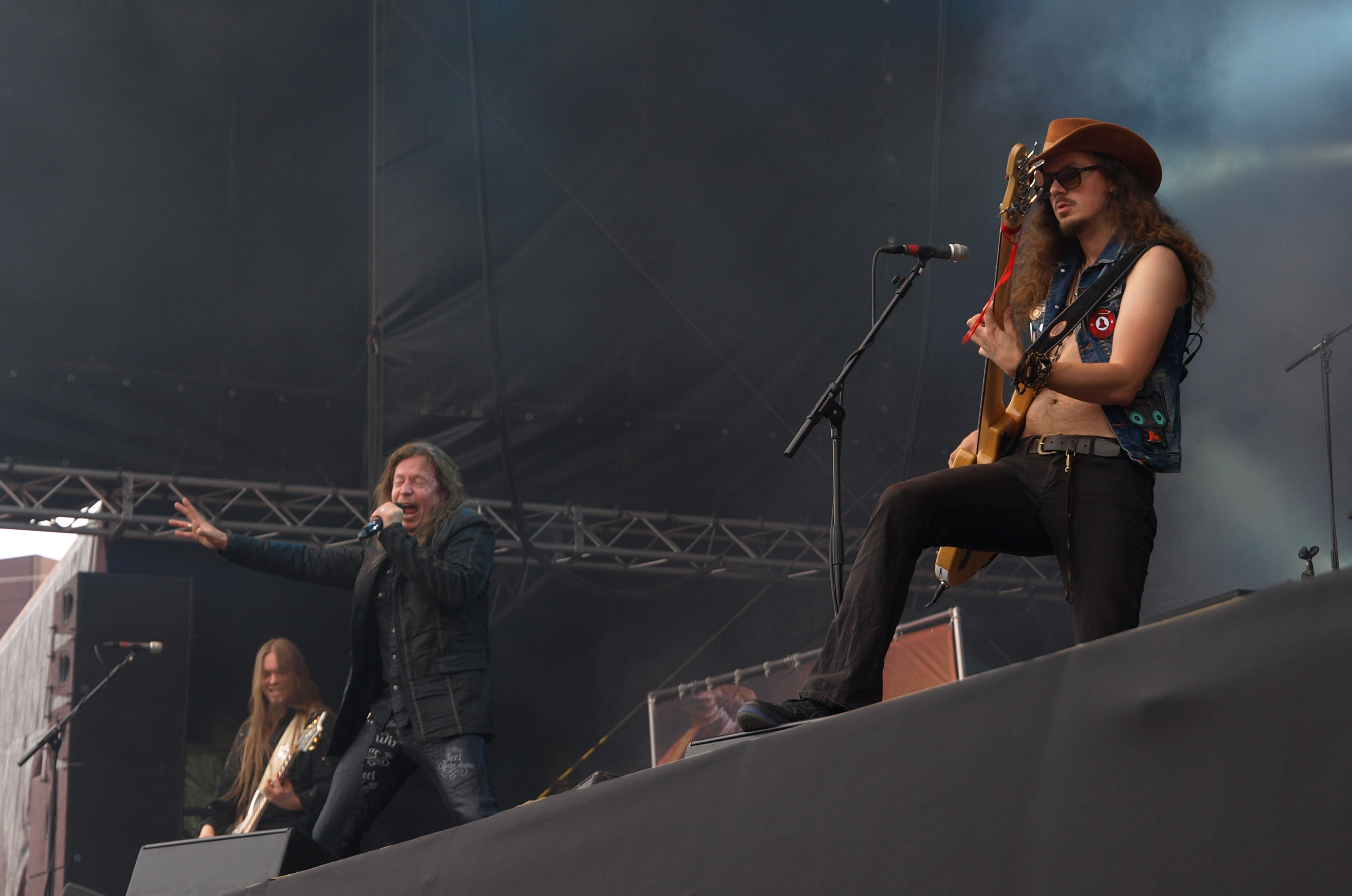 Finnish band Stratovarius at Tuska Open Air 2013